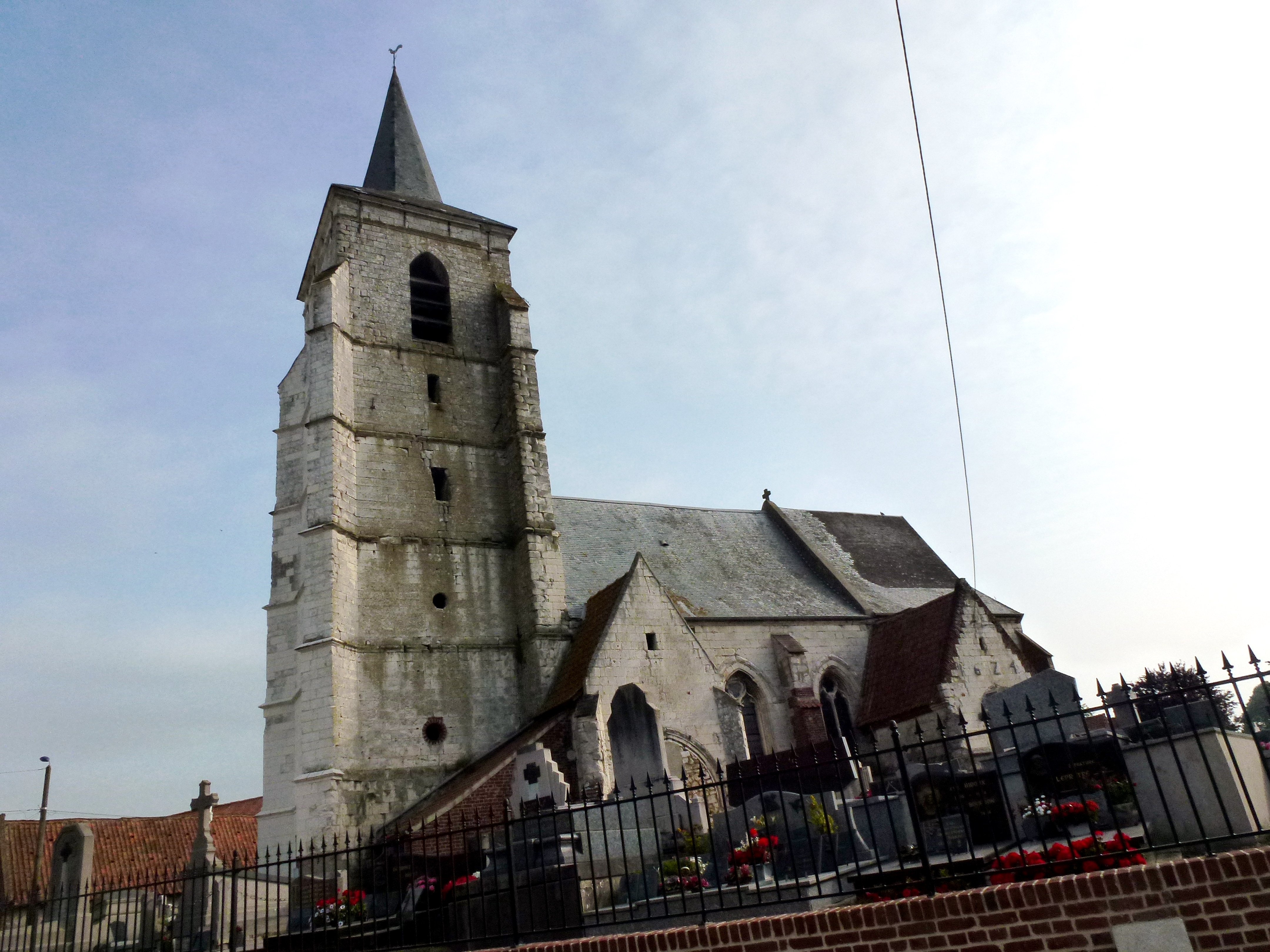 Rely (Pas-de-Calais) église